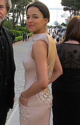 Michelle Rodriguez at the Cinema Against AIDS 2011.